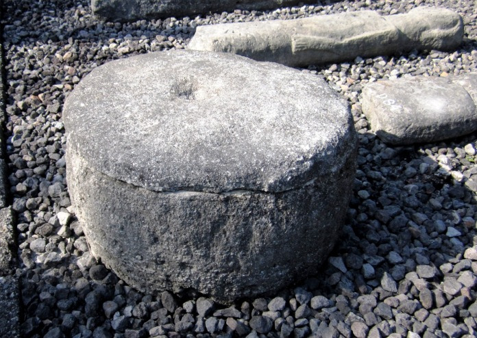 A "kenong" stone, named so for its form resembles a gamelan instrument, a kenong. Its function is as burial stone.